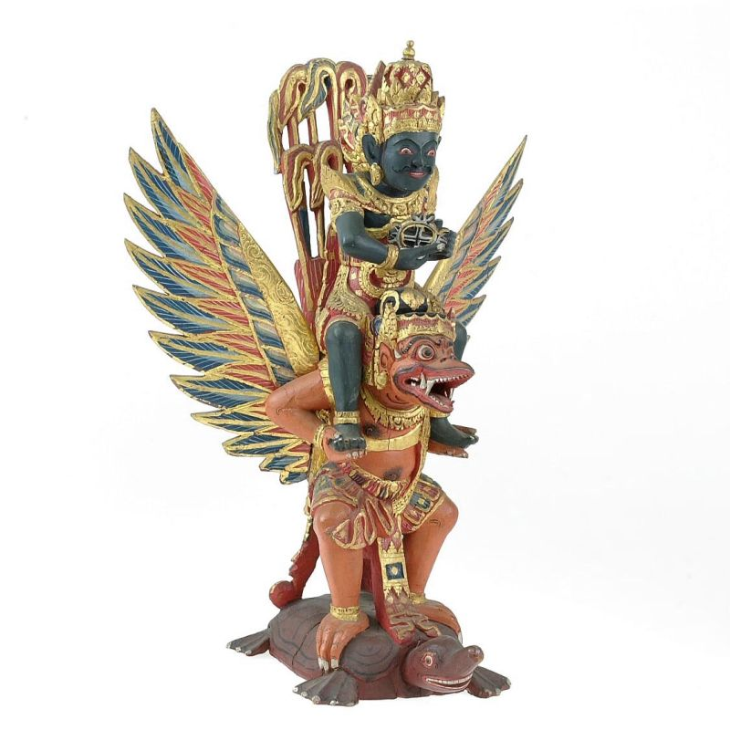 Painted wooden figurine of Vishnu seated on Garuda